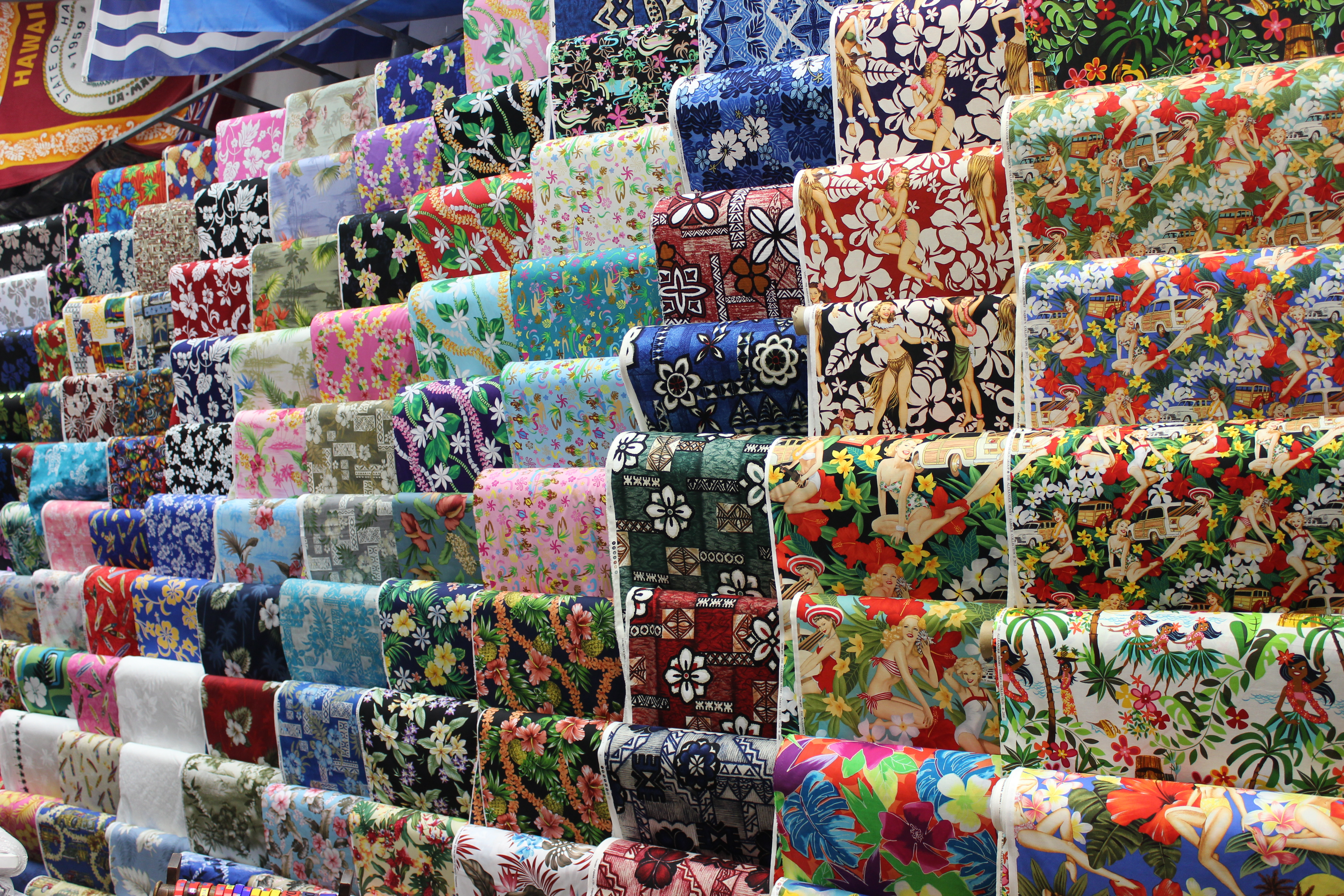 islands fabric , fabric , hawaiian